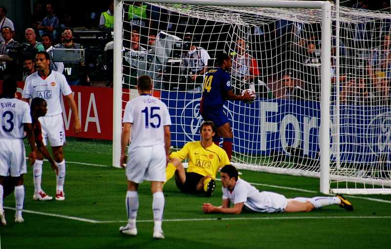 Thierry Henry picks the ball out of the net as Manchester United players contemplate Barcelona's first goal in the 2009 UEFA Champions League Final